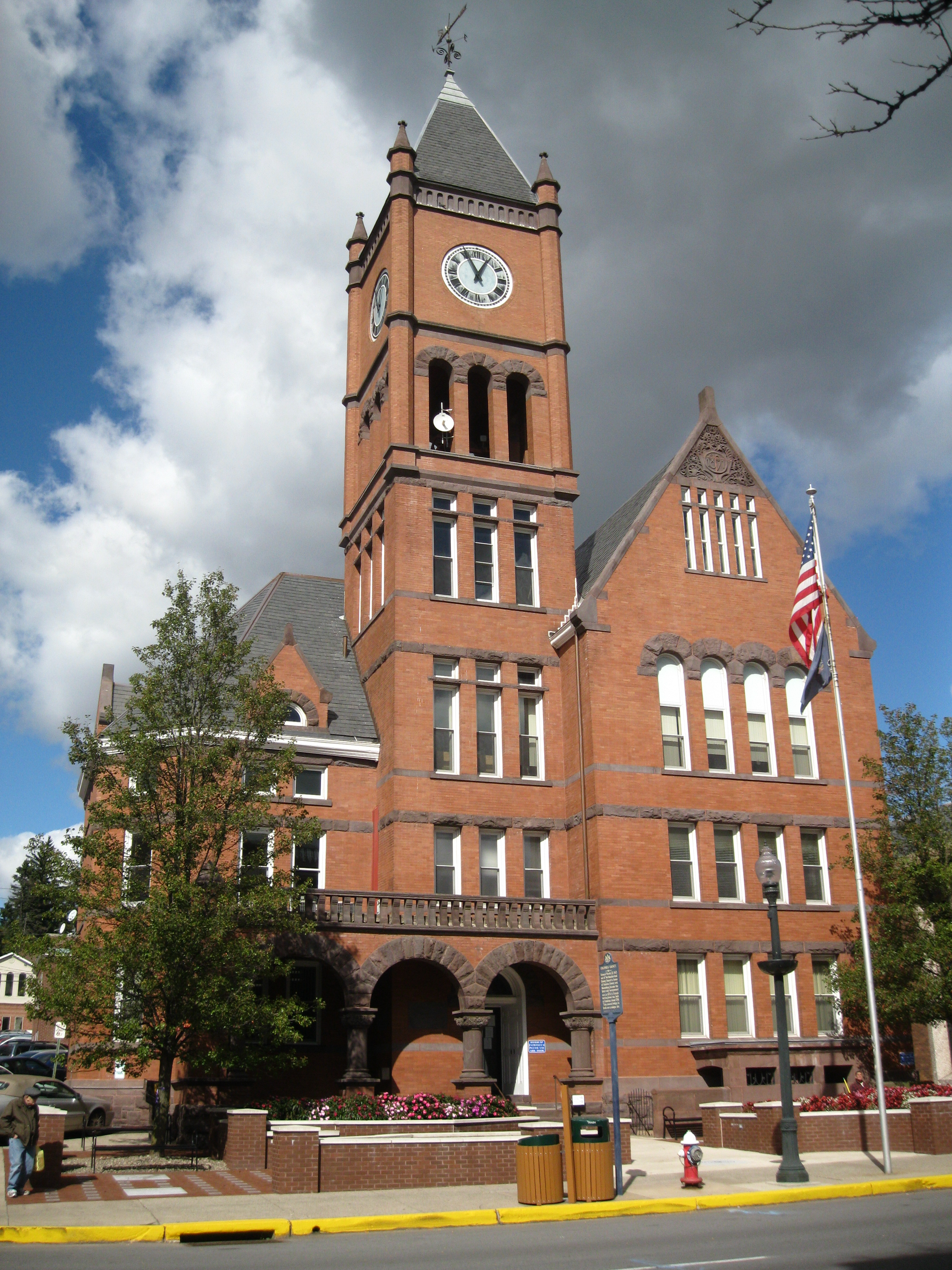 Columbia County court house in Bloomsburg in Pennsylvania, USA.